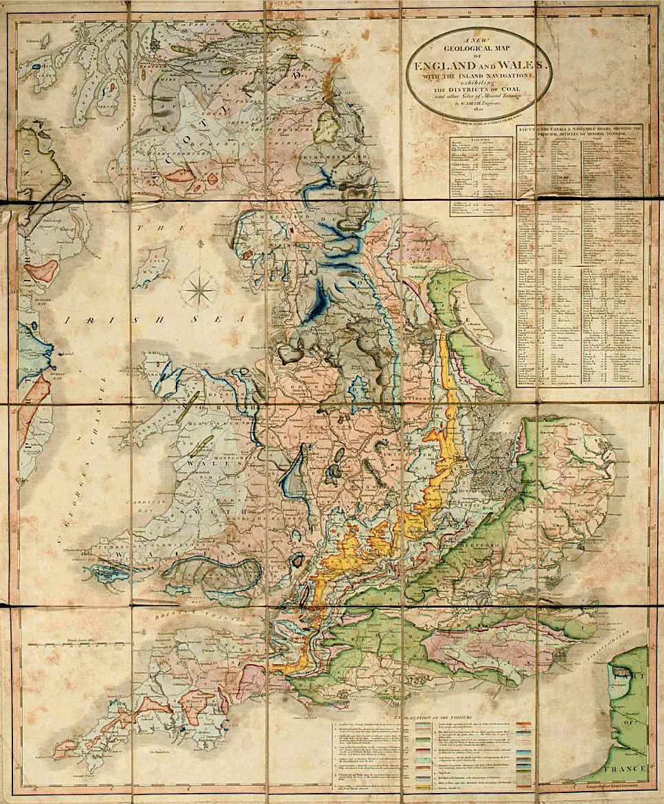 William Smith's "New Geological Map of England and Wales" published in 1820 and building on his 1815 map that was the first geological map of Britain.